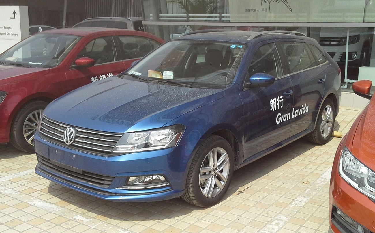 Volkswagen Gran Lavida facelift photographed in Beijing, China.